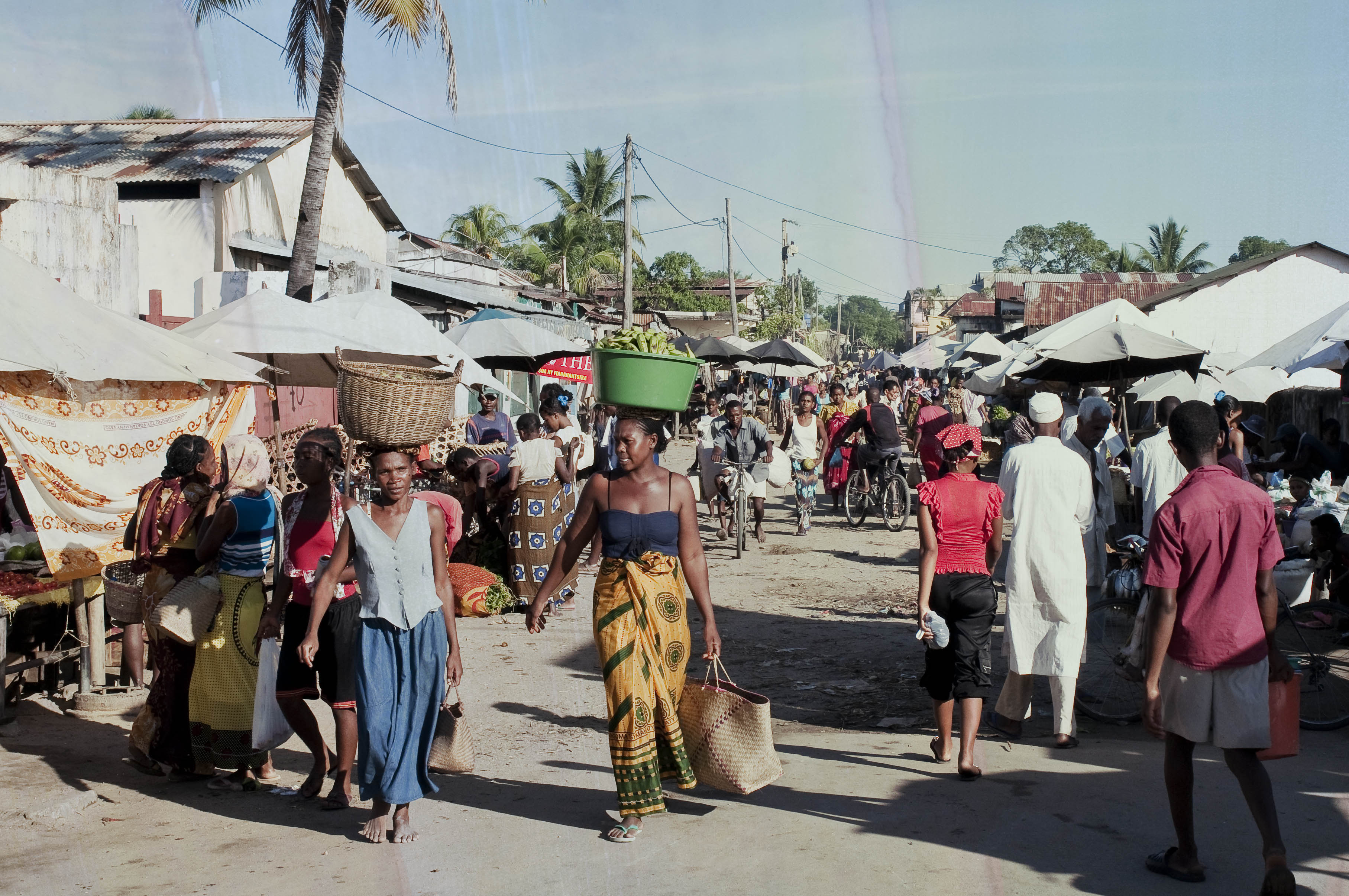 Market scene in Ambilobe, Madagascar.